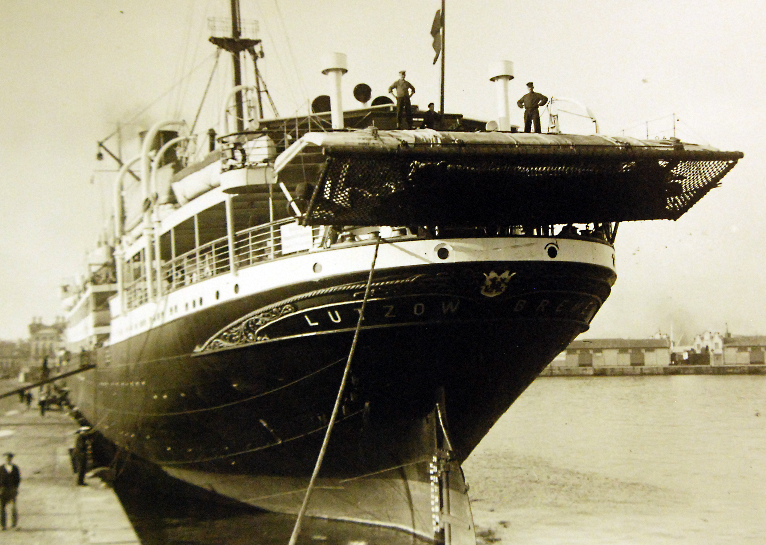 Lot-8127-6: German Activities, WWI. Lutzow, tests with launching seaplane with a drag sail trailing on the surface of the water. Courtesy of the Library of Congress. (2016/10/28).